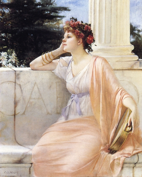 After the festival